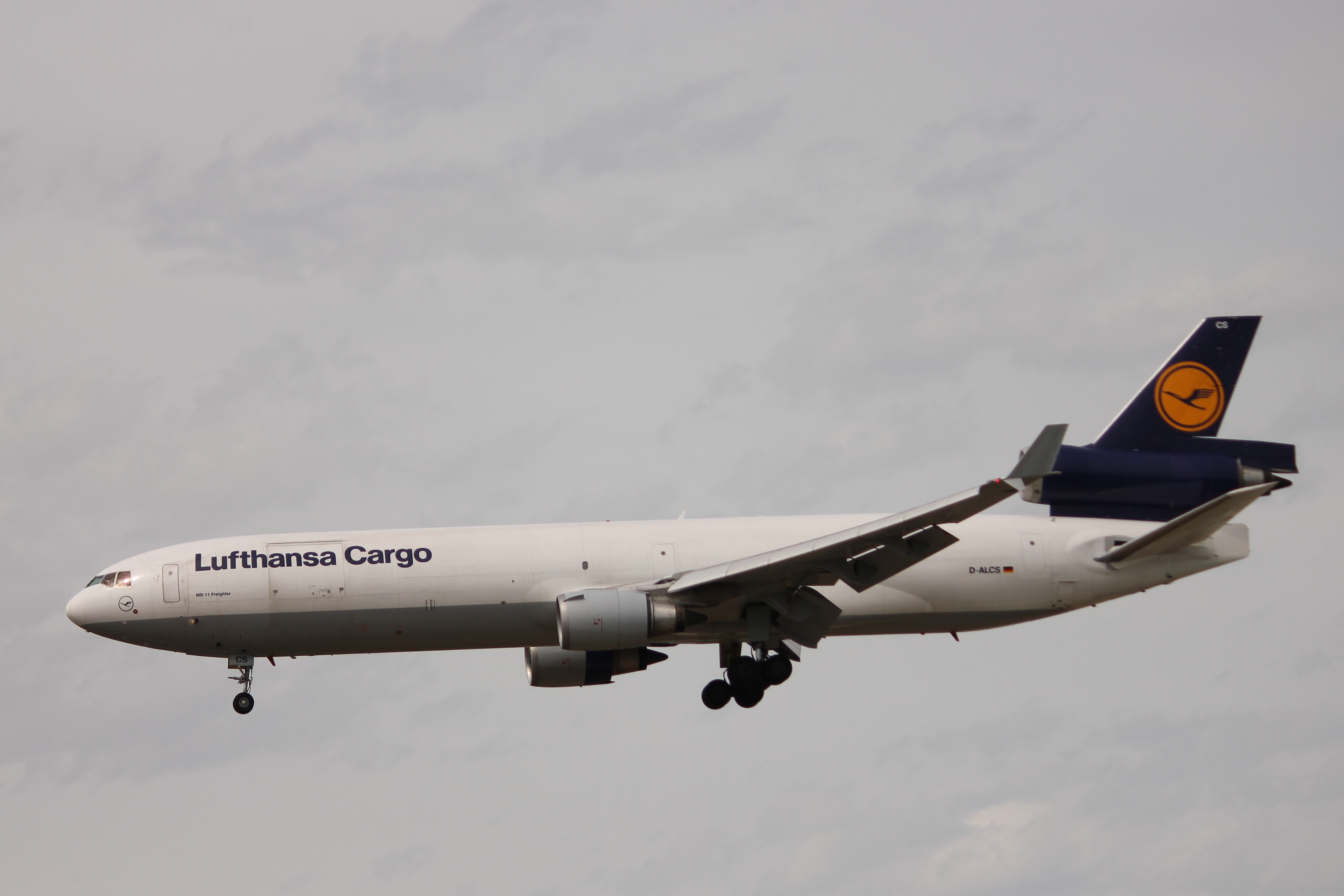 A MD-11F of Lufthansa Cargo